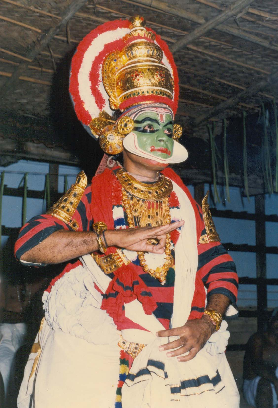 Mani Damodara Chakyar as Nayaka- hero, in Swapnavasavadattam Koodiyattam. Author: Sreekanth V (Sreekanthv) Source: Author's private collection. photo was taken by the author himself.